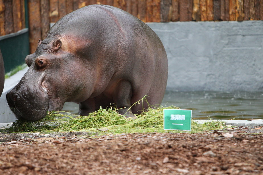 Kaliningrad hippos predict the result of the match Russia vs Saudi Arabia (2018-06-14)